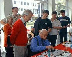 Ephraim Kishon at his hobby chess, Dortmund 2001, left Helmut Pfleger, Photographer Gerhard Hund.